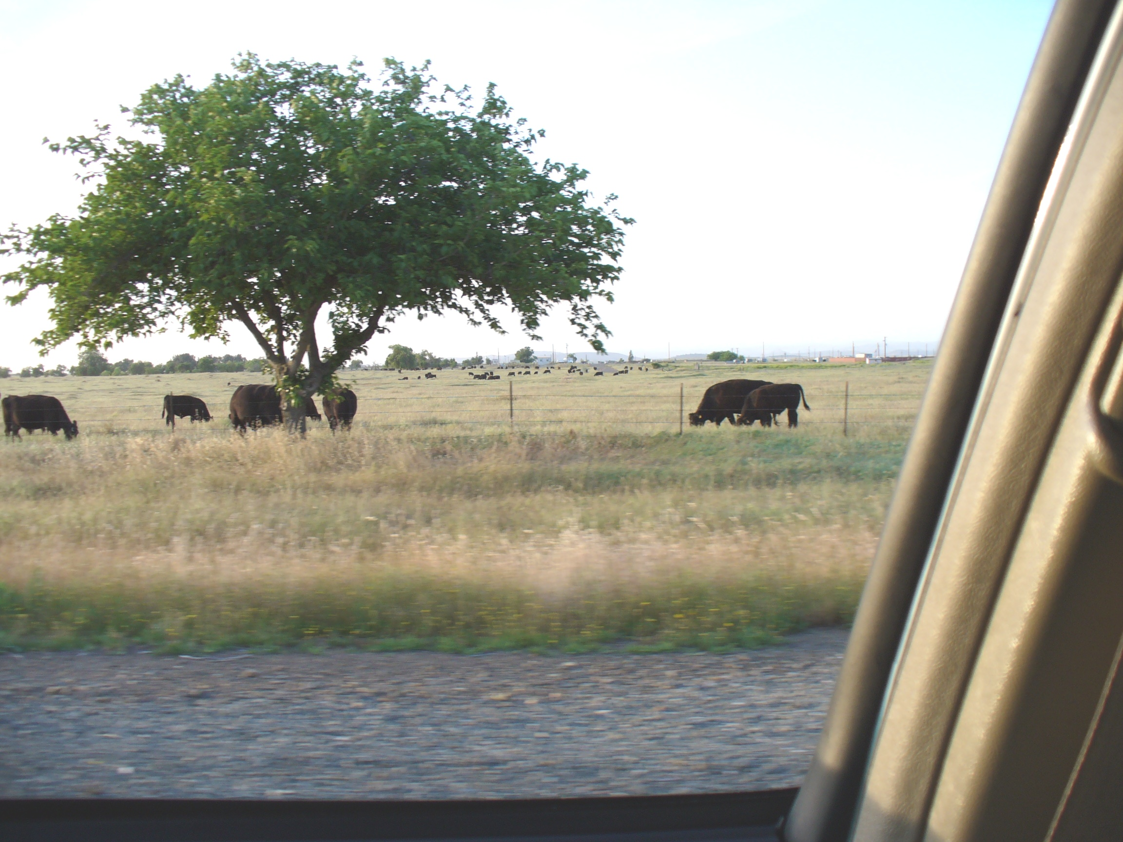 Beale Air Force Base Cows